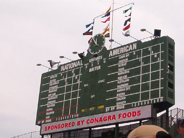 took this myself 03:29, 8 August 2007 . . Wjmummert . . 640×480 (61 KB)